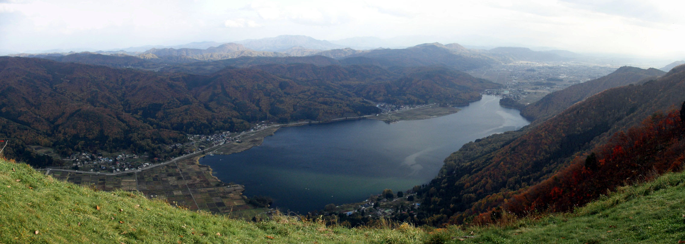 Lake Kizaki viewed from northwest.